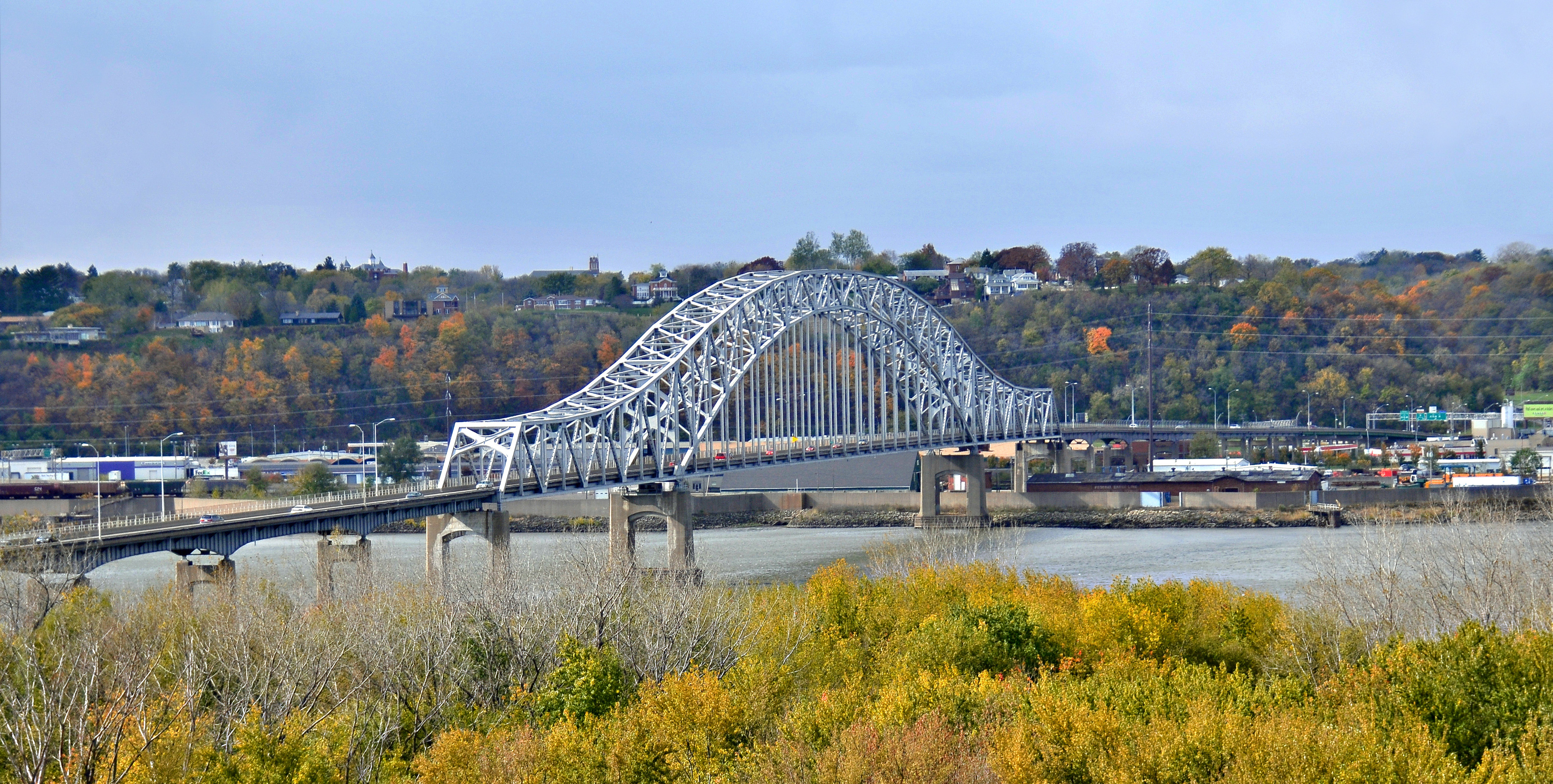 Photo taken from Gramercy Park in East Dubuque, the bridge is part of the U.S. Highway 20 route.